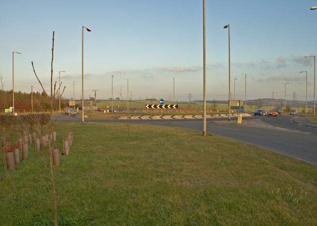 Roundabout on the A6. Looking East with the village of Streatley behind. The A6 crosses an unclassified road with Bedford to the left and Luton to the right.